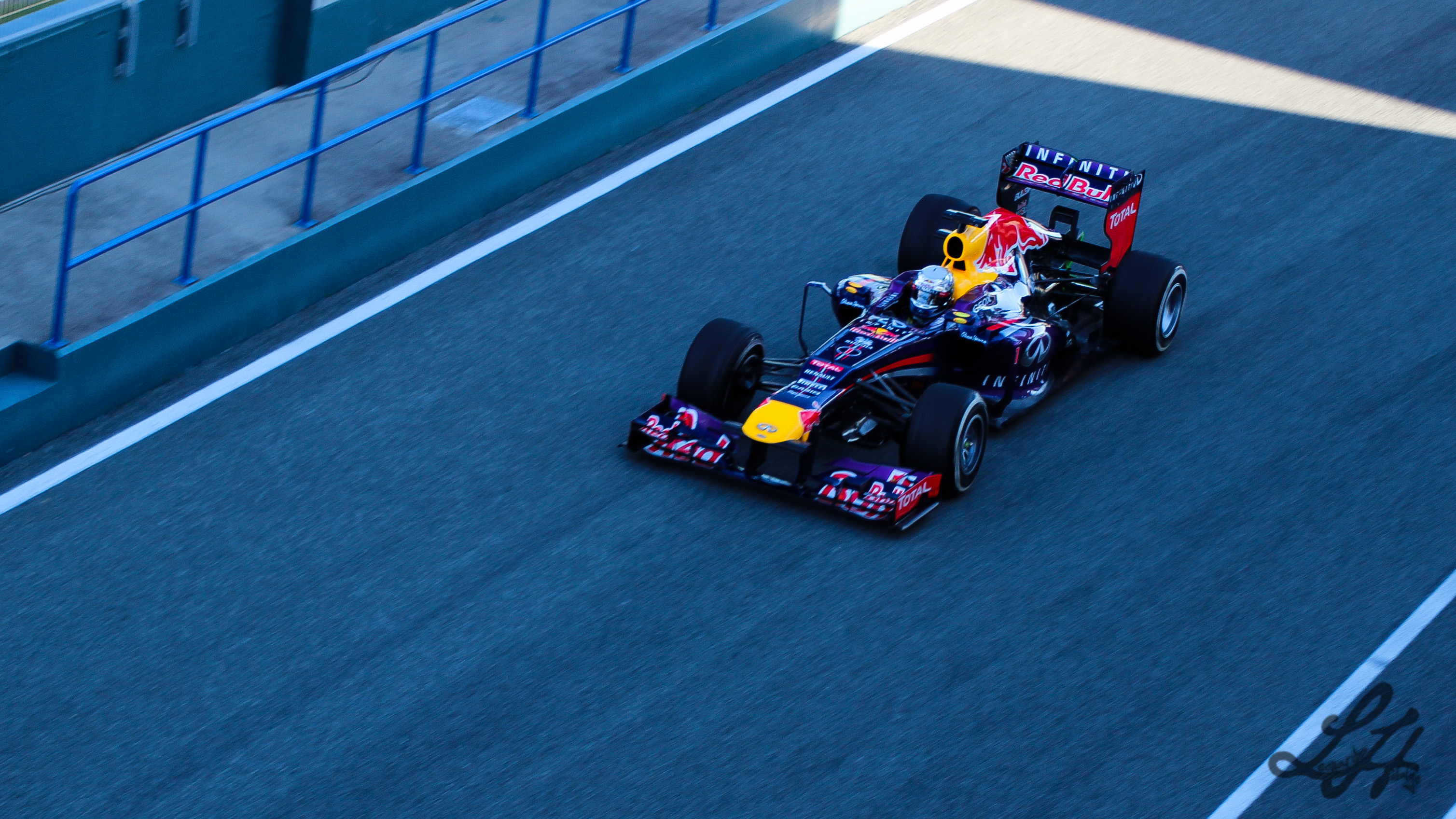 Vettel in the pits during 2013 pre-season testing